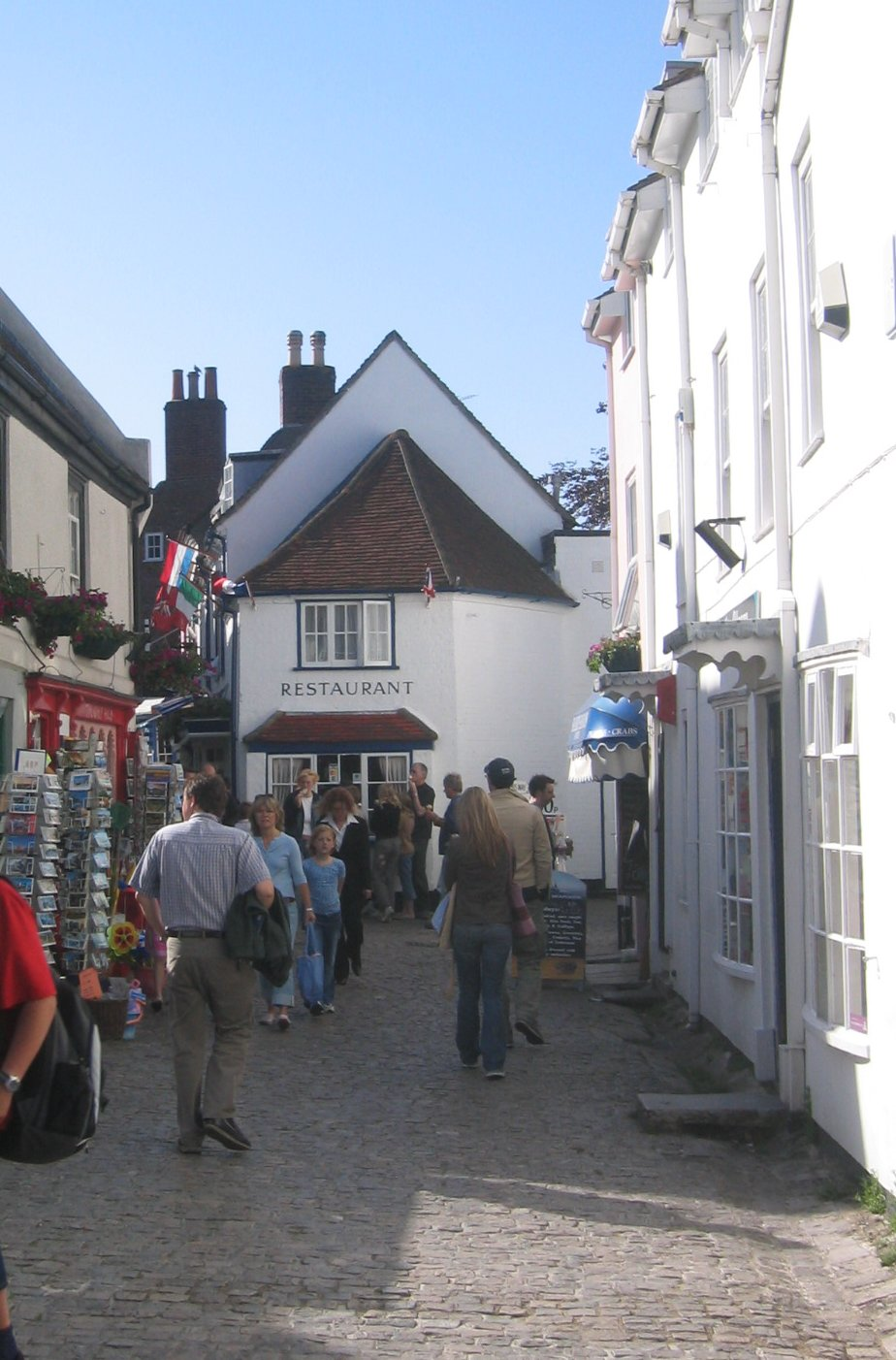 Narrow cobbled streets in Lymington town centre.